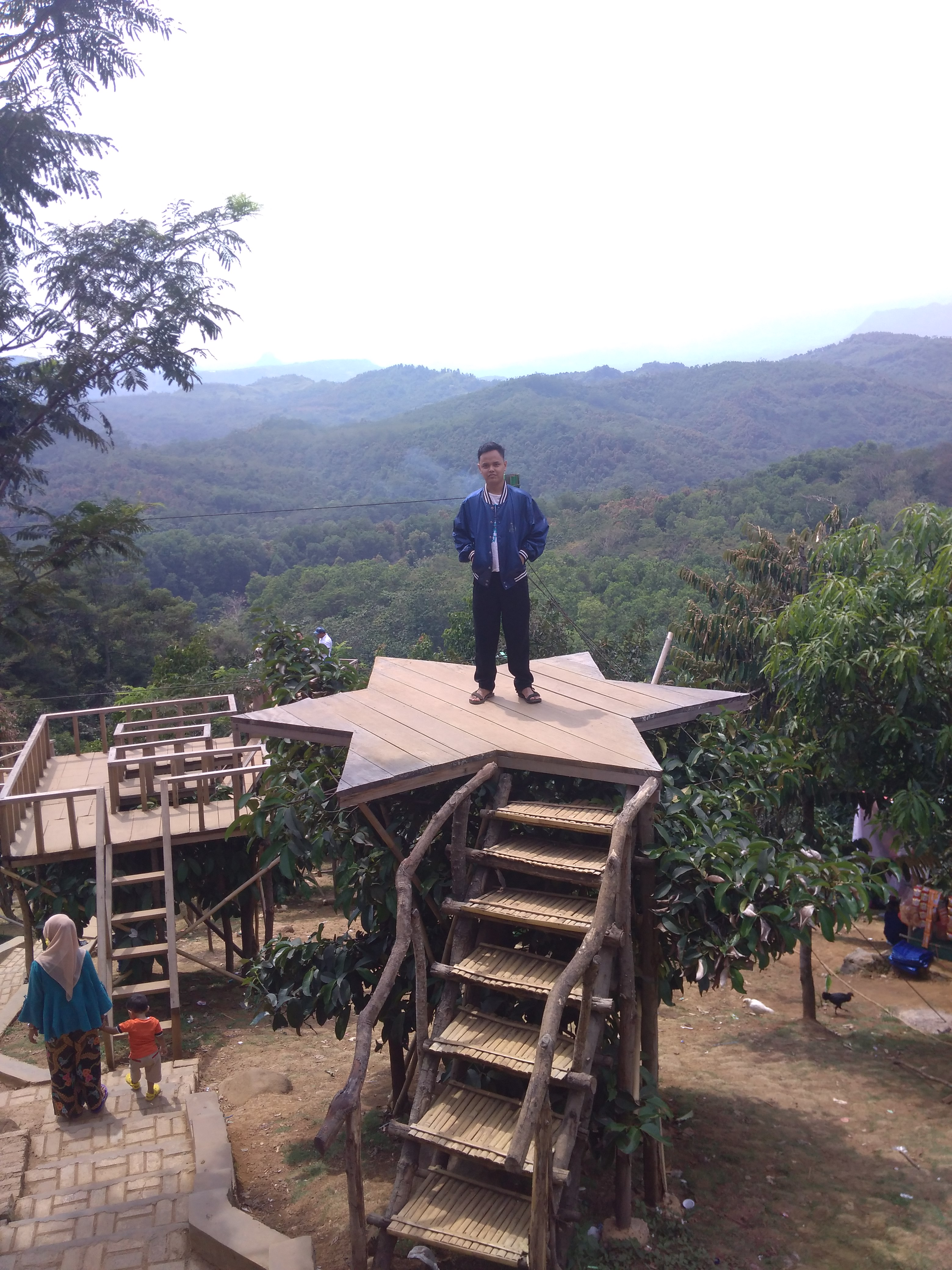 Original Upoad From